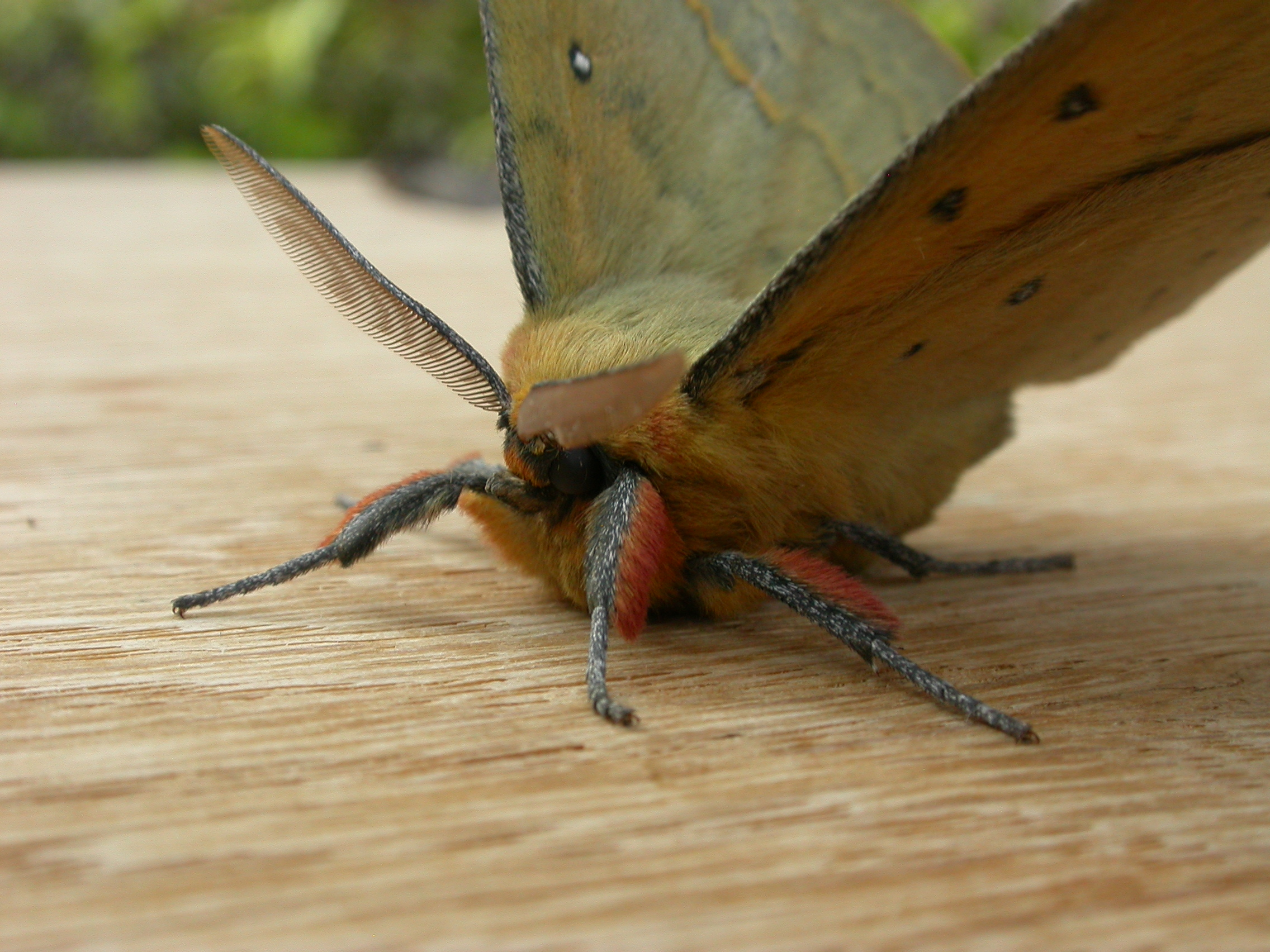 Anthela nicothoe (Boisduval, 1832), female, to MV light, Blackheath, NSW, 22/23 January 2011